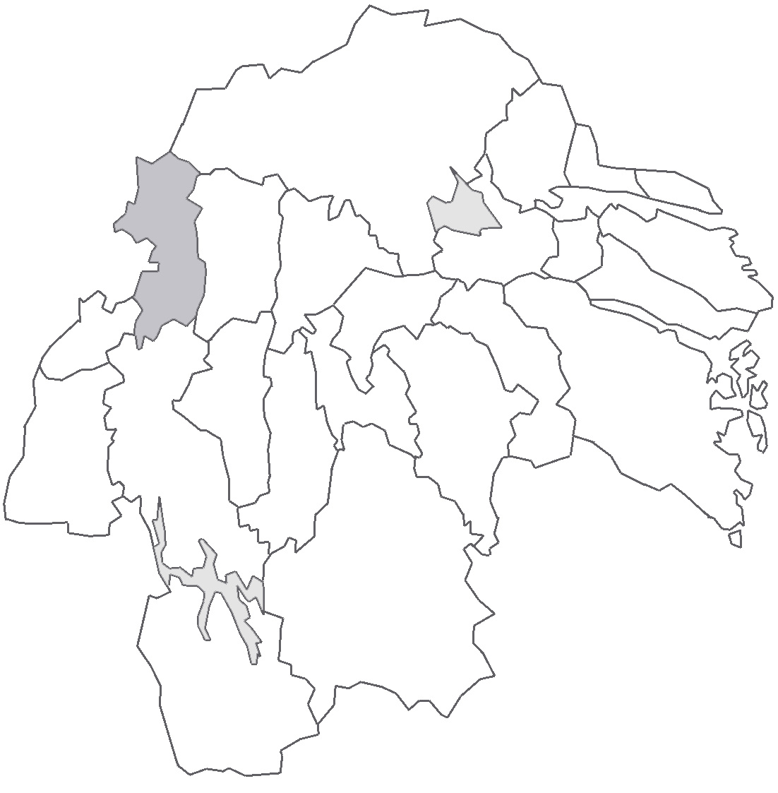 Map describing the location of Aska Hundred in Östergötland County, Sweden.